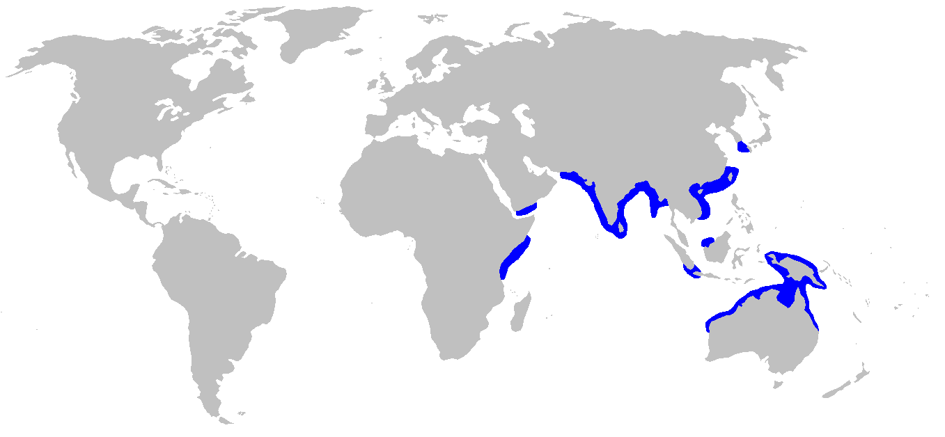 Distribution map for Carcharhinus macloti, based on Last, P.R.; Stevens, J.D. (2009). Sharks and Rays of Australia (second ed.). Harvard University Press. pp. 266–267.